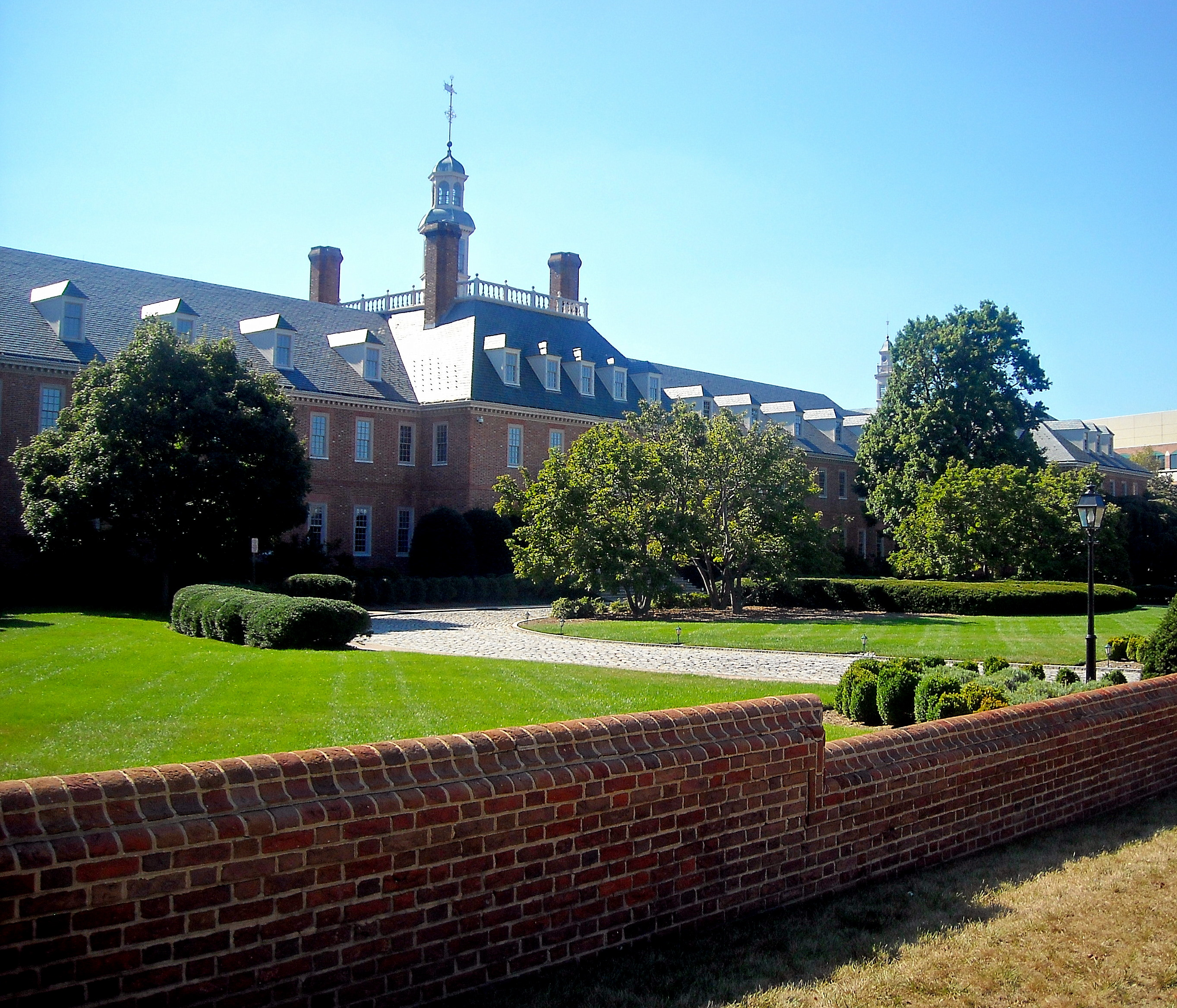 The Colonial Revival headquarters of Fannie Mae, designed by architect Leon Chatelain, Jr. in 1956, located at 3900 Wisconsin Avenue, N.W., in the Cathedral Heights neighborhood of Washington, D.C.